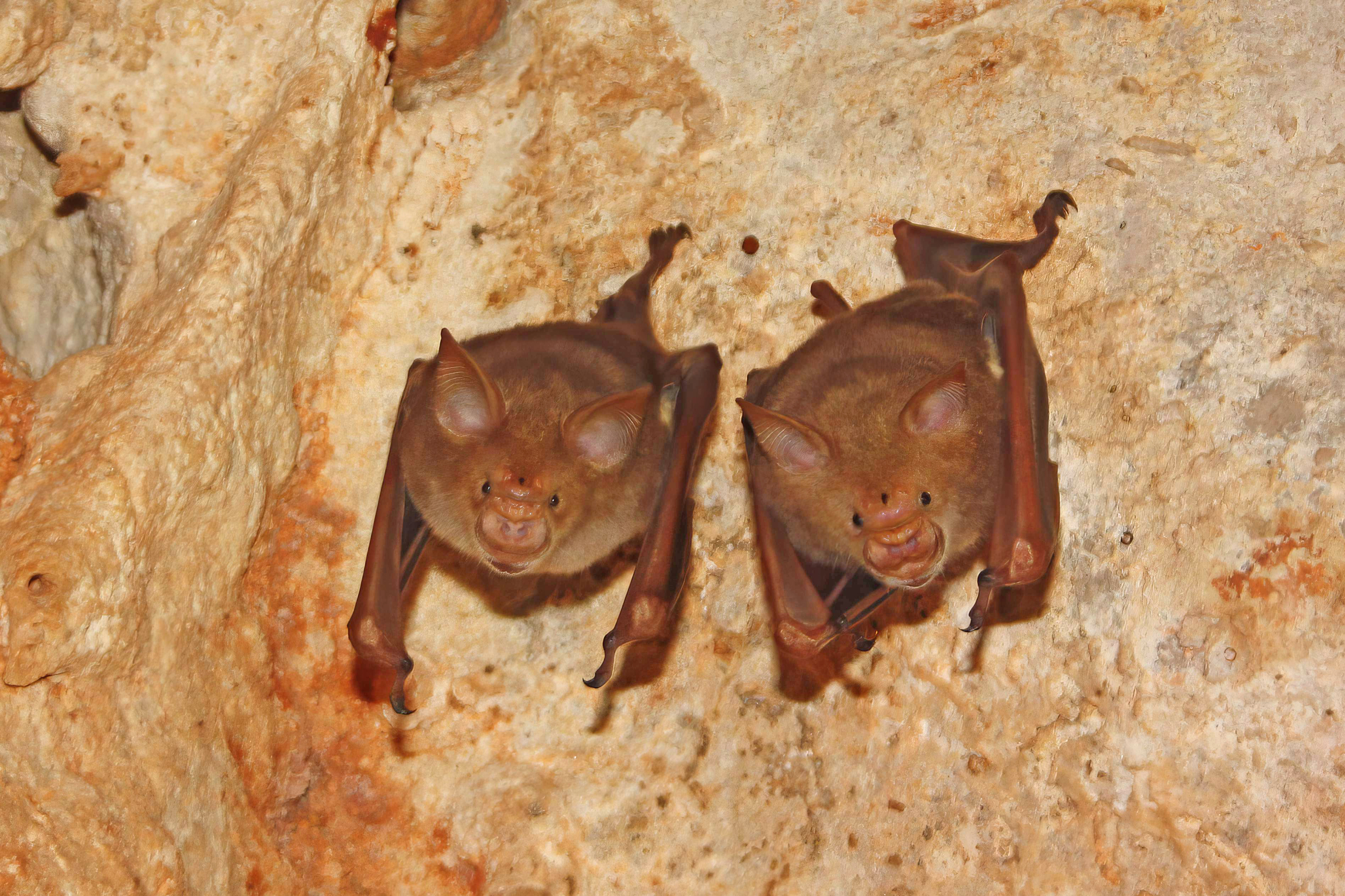 Commerson's leaf-nosed bats (Hipposideros commersoni) in the Sakalava caves, Anjajavy Forest, Madagascar